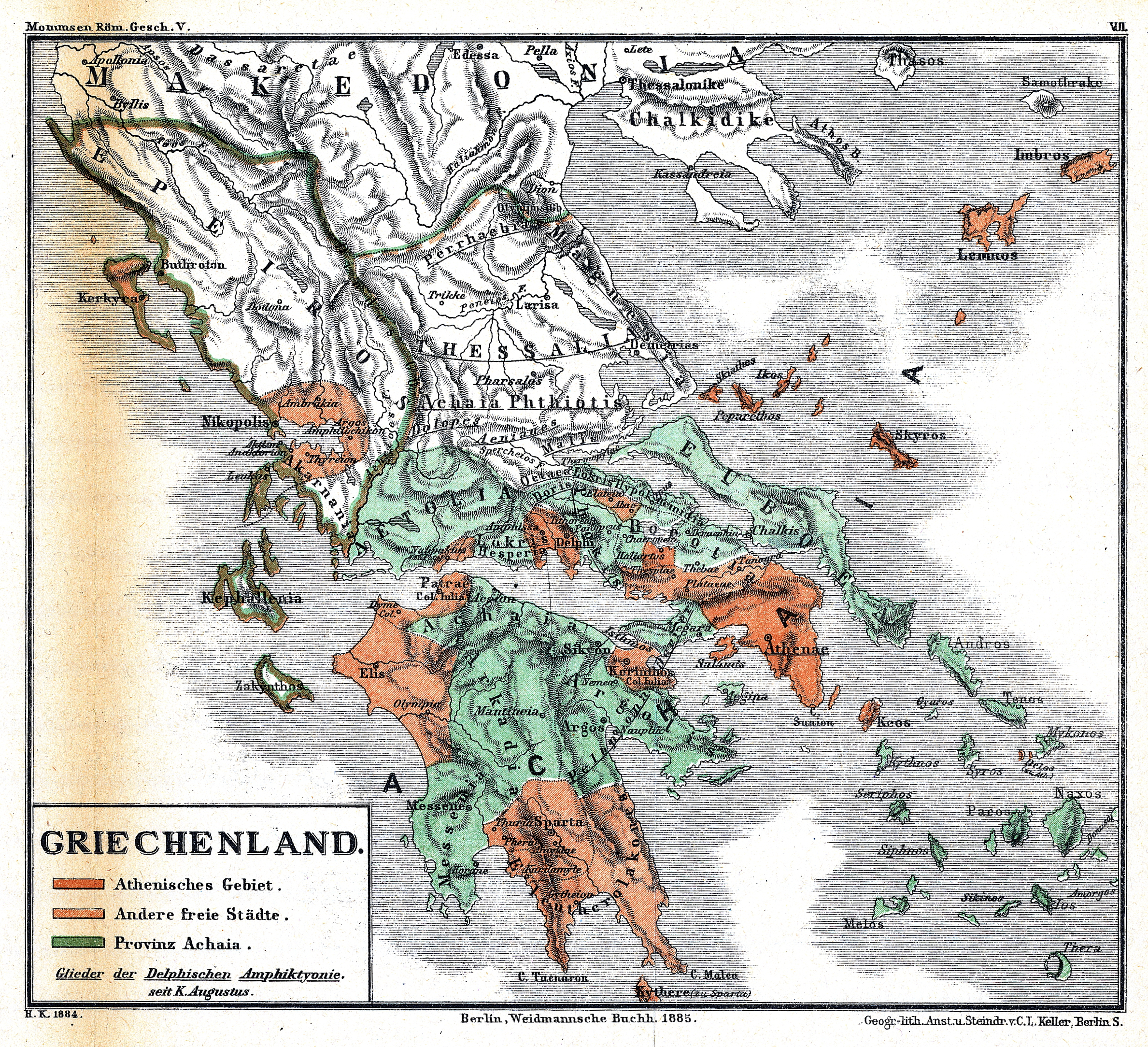 maps of roman provinces, from the book "Römische Provinzen", part V, by Theodor Mommsen